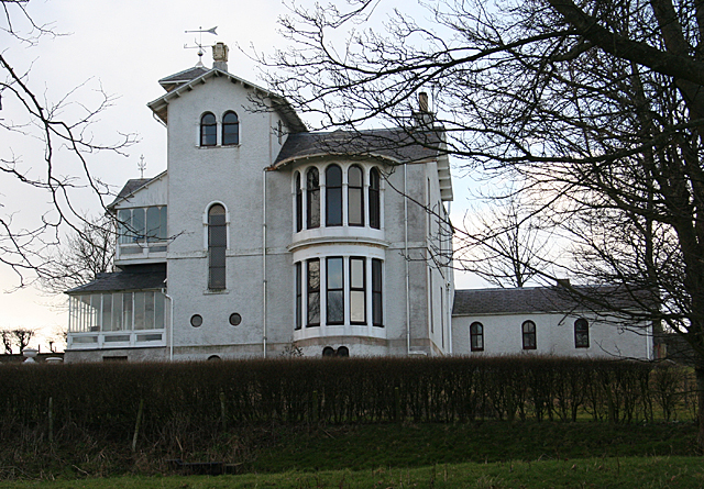 South Colleonard